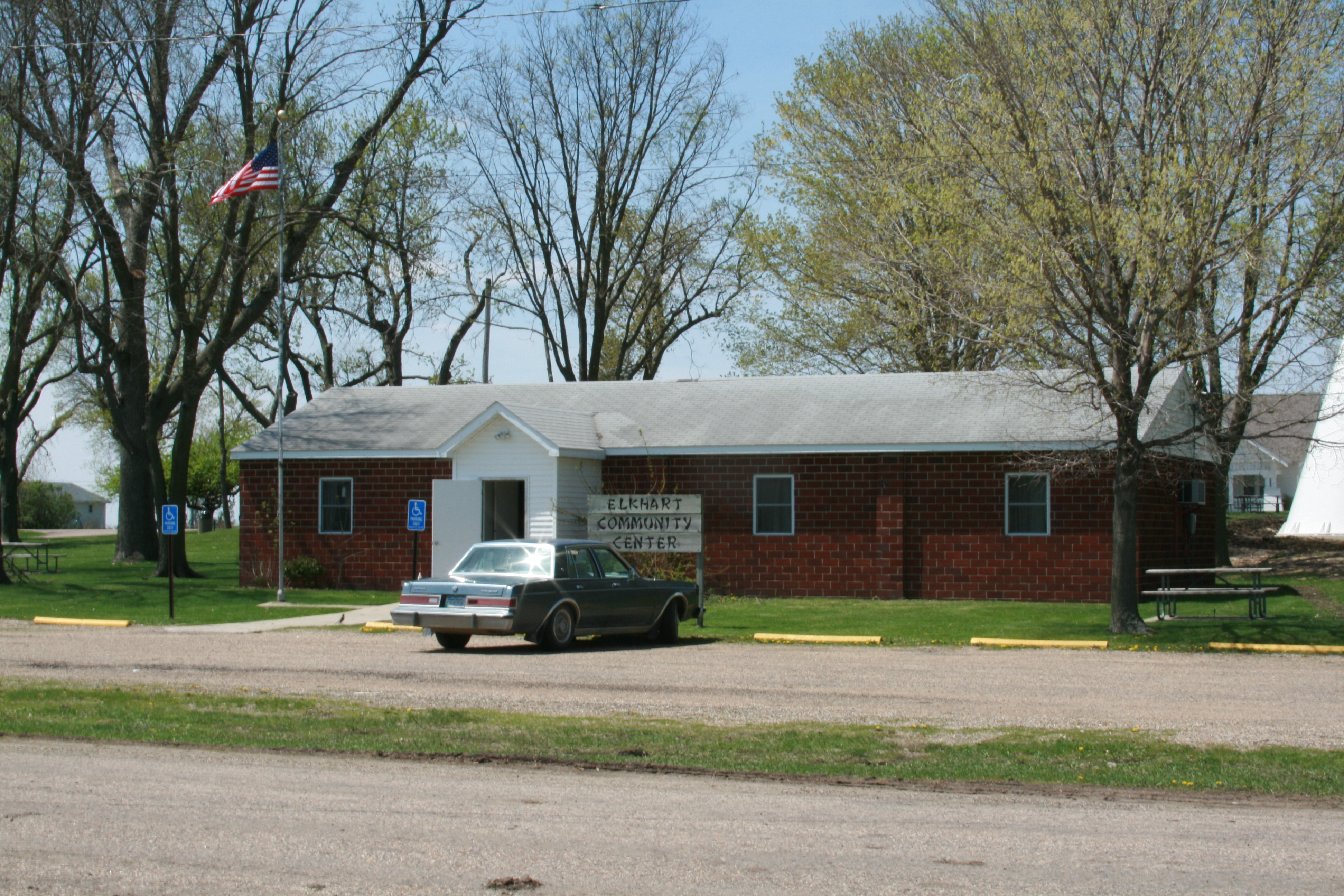 Community Center located in Elkhart, Iowa